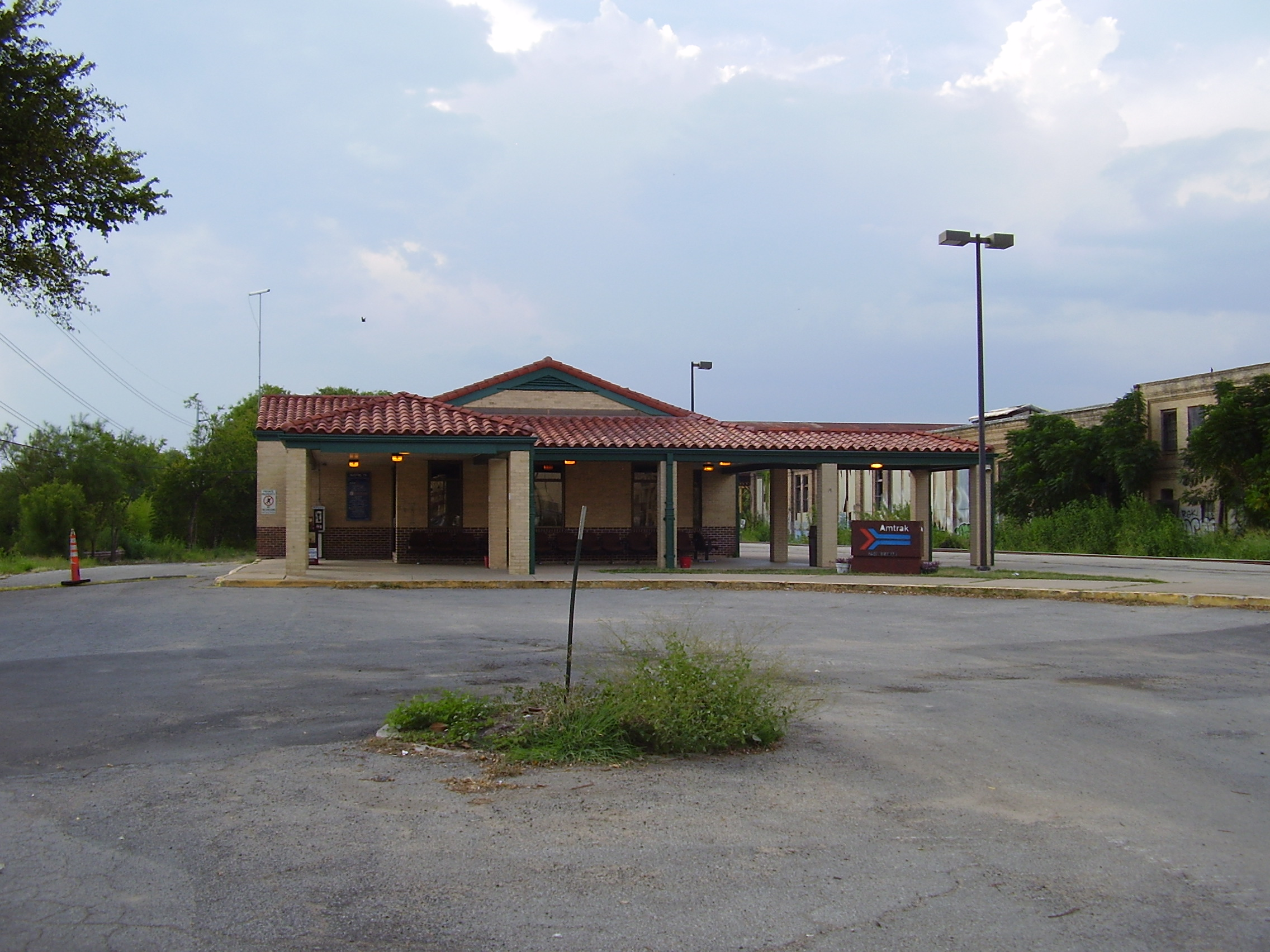 Austin Amtrak Station